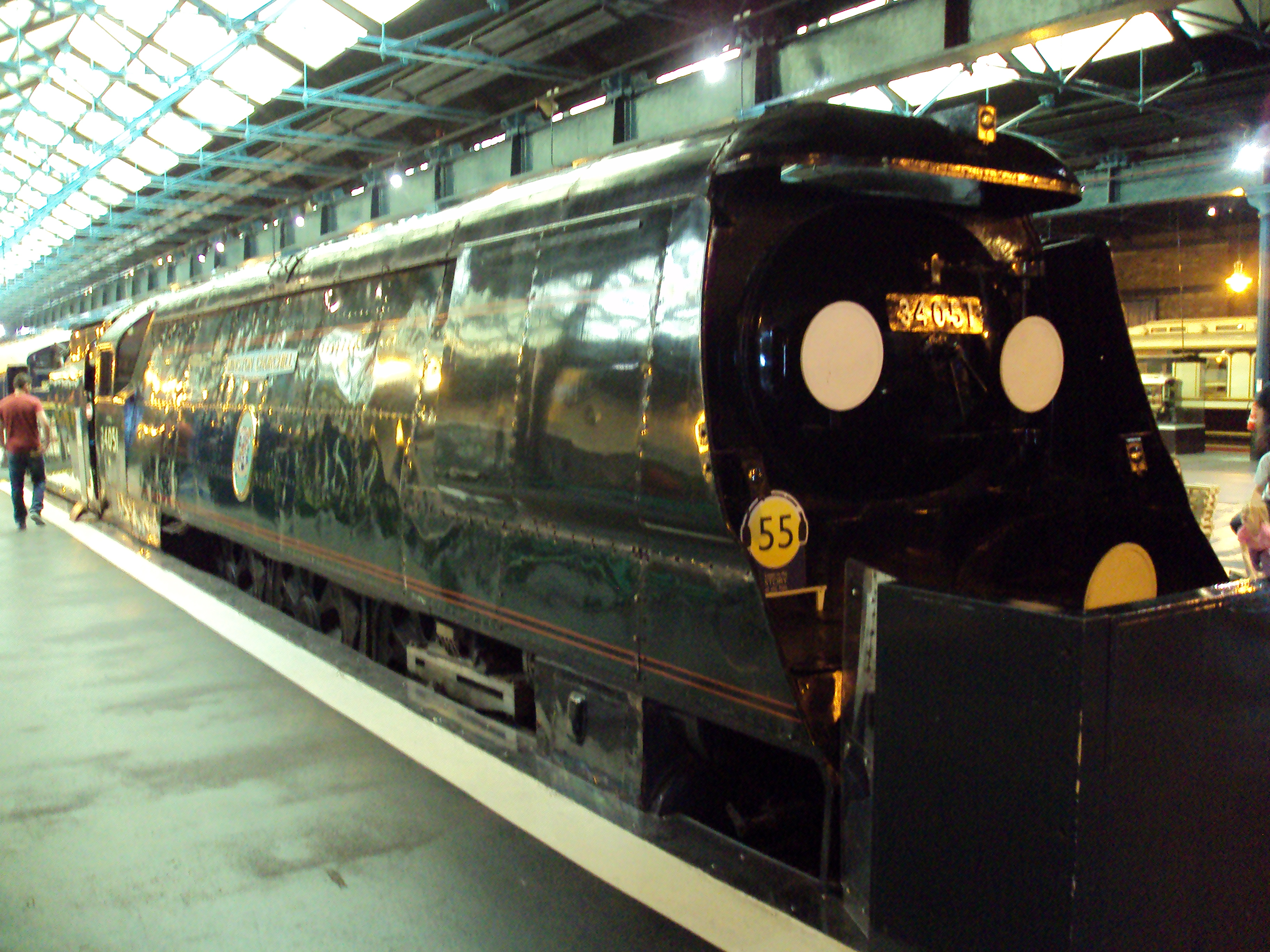 Battle of Britain class locomotive number 34051 "Winston Churchill". Photo taken at the National Railway Museum, York.